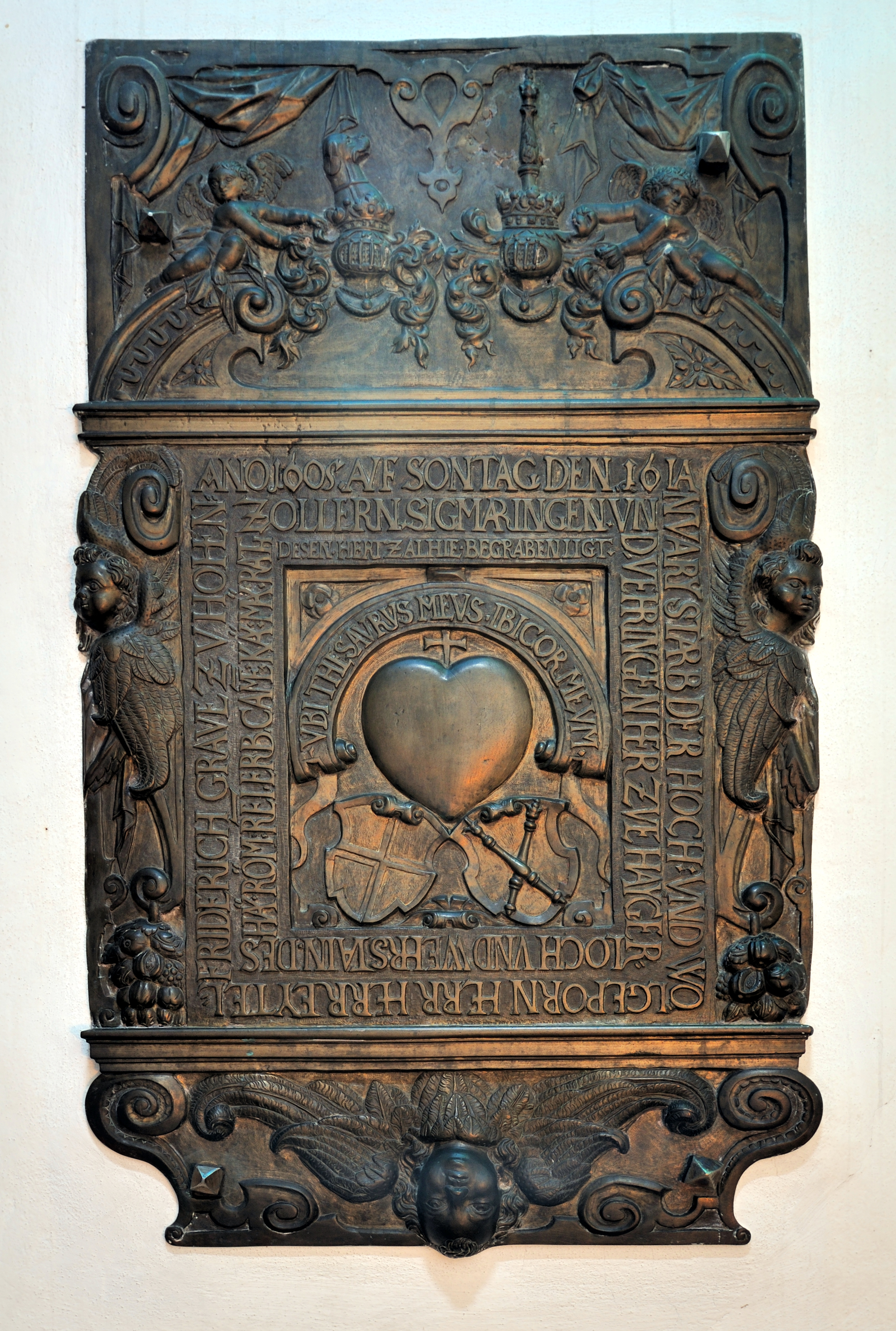 Hechingen: Minster Saint Luzen